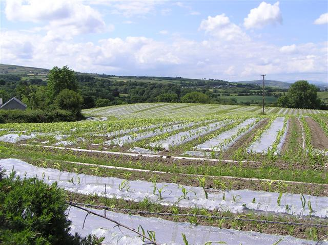 Ballyskeagh Townland. The farmers use these plastic sheets to bring on the crop.